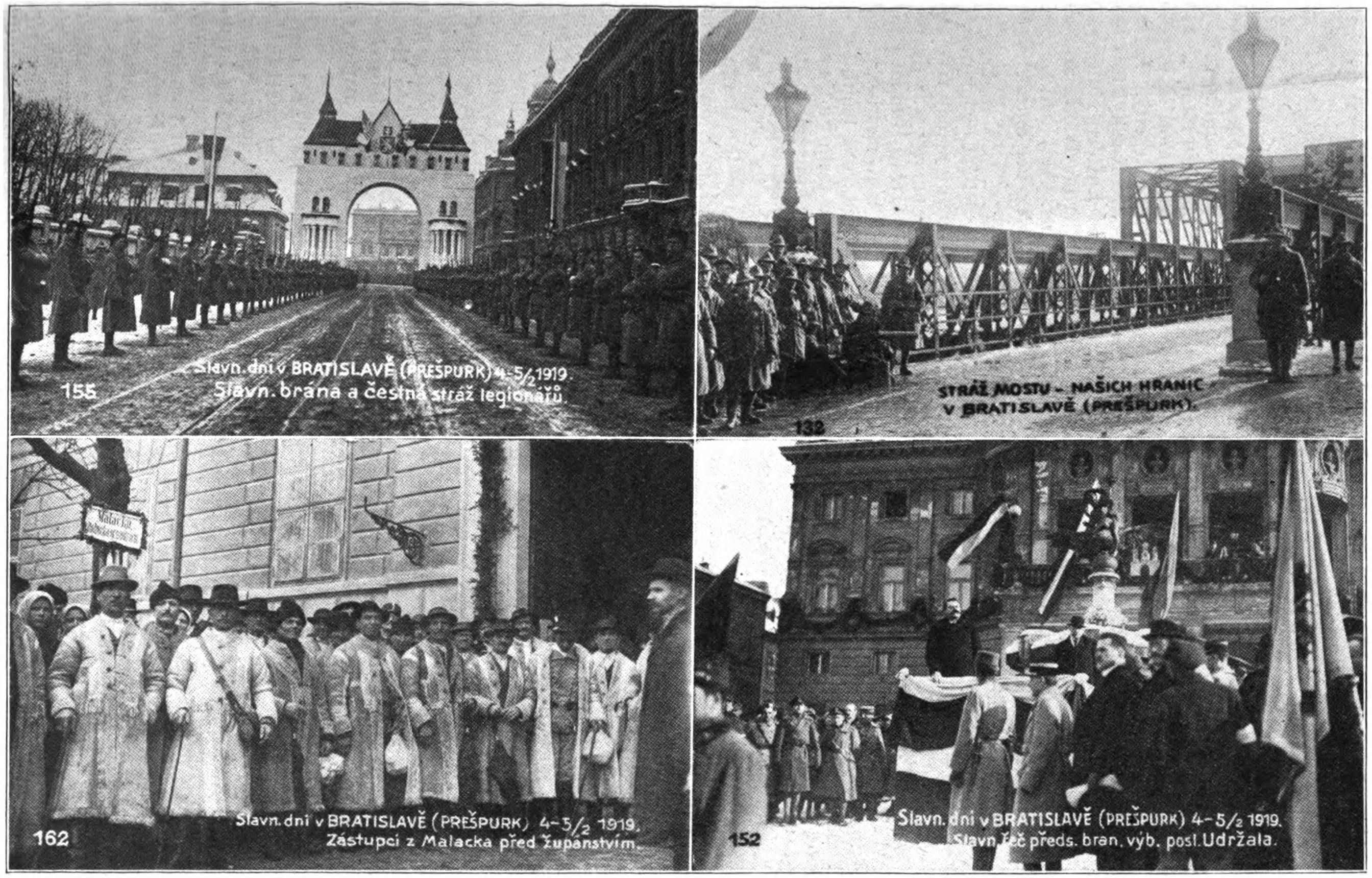 Celebrations in Bratislava, 1919 Top left: Principal gate with guard of honor Top right: Bridge across the Danube Bottom left: Deputation of Slovak peasants Bottom right: Deputy Udržal speaking